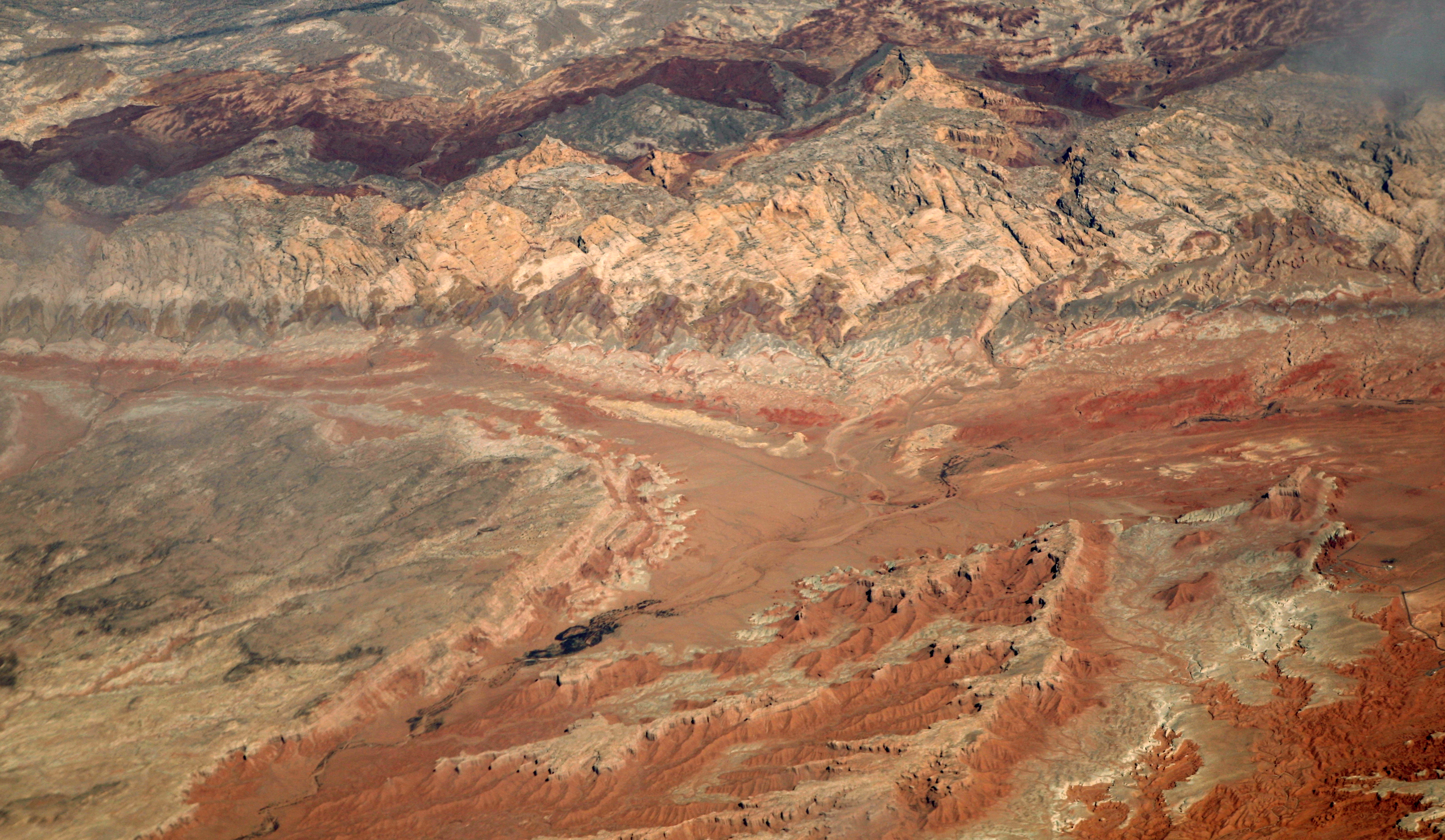 Goblin Valley, in the lower right, and Wild Horse Butte to the left of it. A contrail traces the slope of the San Rafael Reef, beyond which is the San Rafael Swell, in central Utah. Wild Horse Creek runs from the bottom left to the mid right. Mouse over for more.